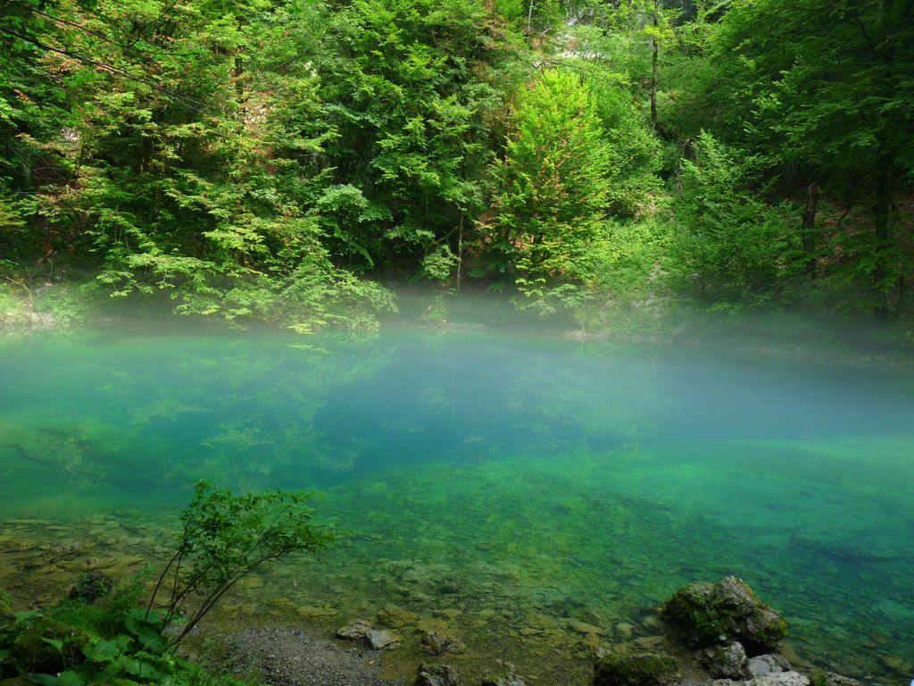 Karst spring Kolpe in Slovenia